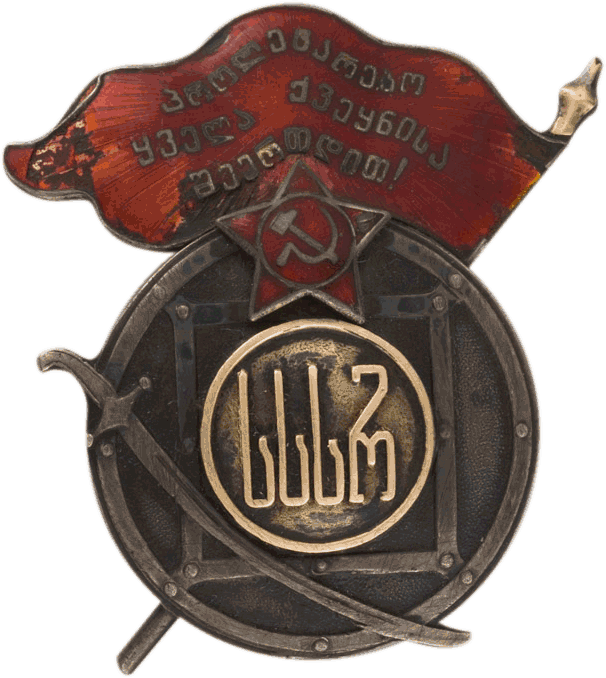 Order of the Red Banner of the Georgian Soviet Socialistic Republic, 1923.